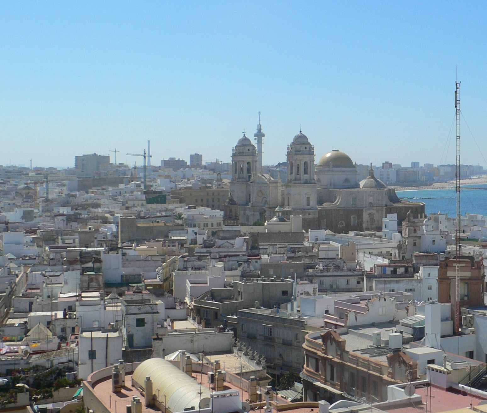 View from Torre Tavira, Cádiz, Andalucia (Spain)